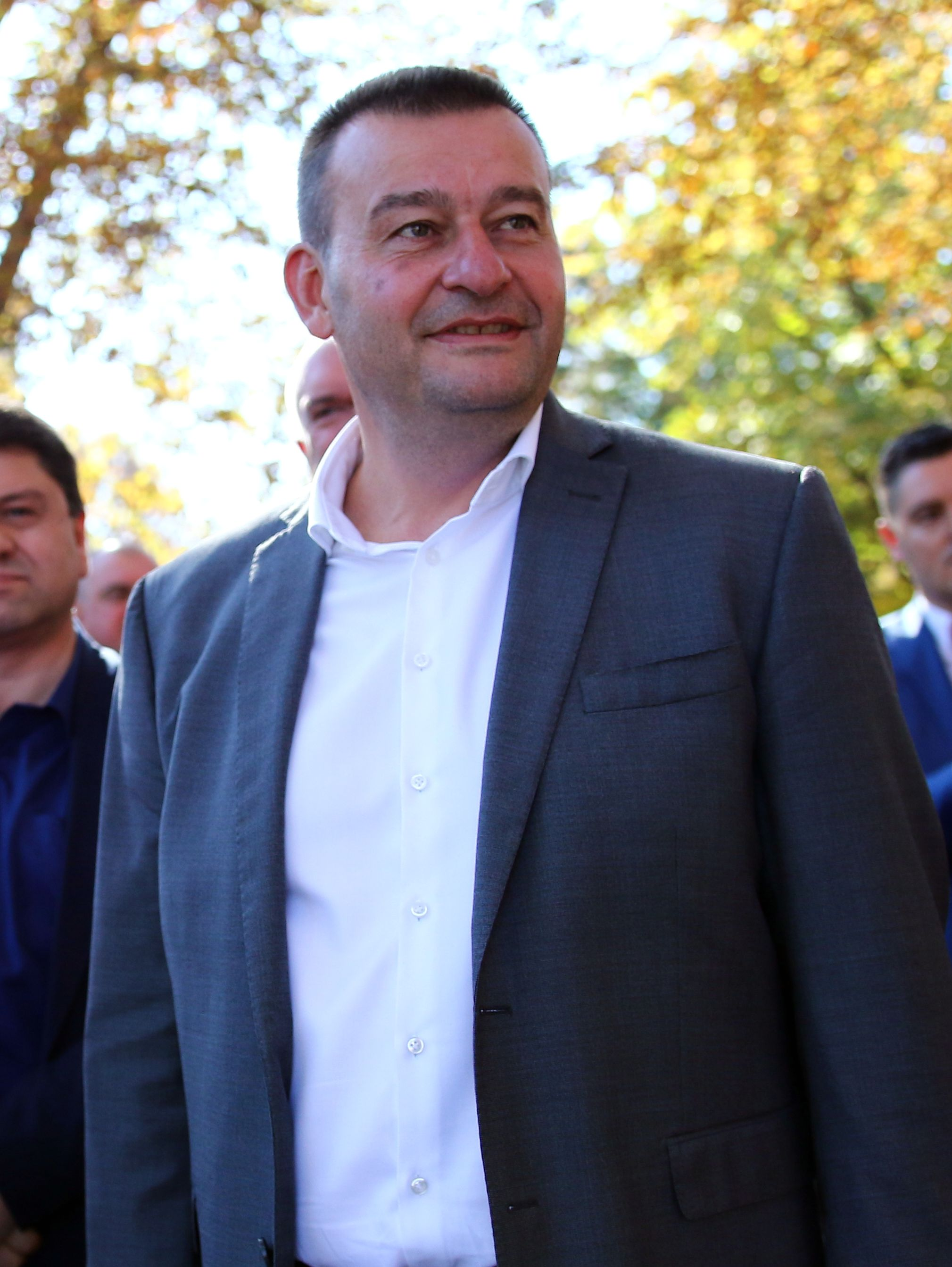 Vasko Stoilkov - Mayor of Slivnitsa Municipality, Bulgaria, from 2011.